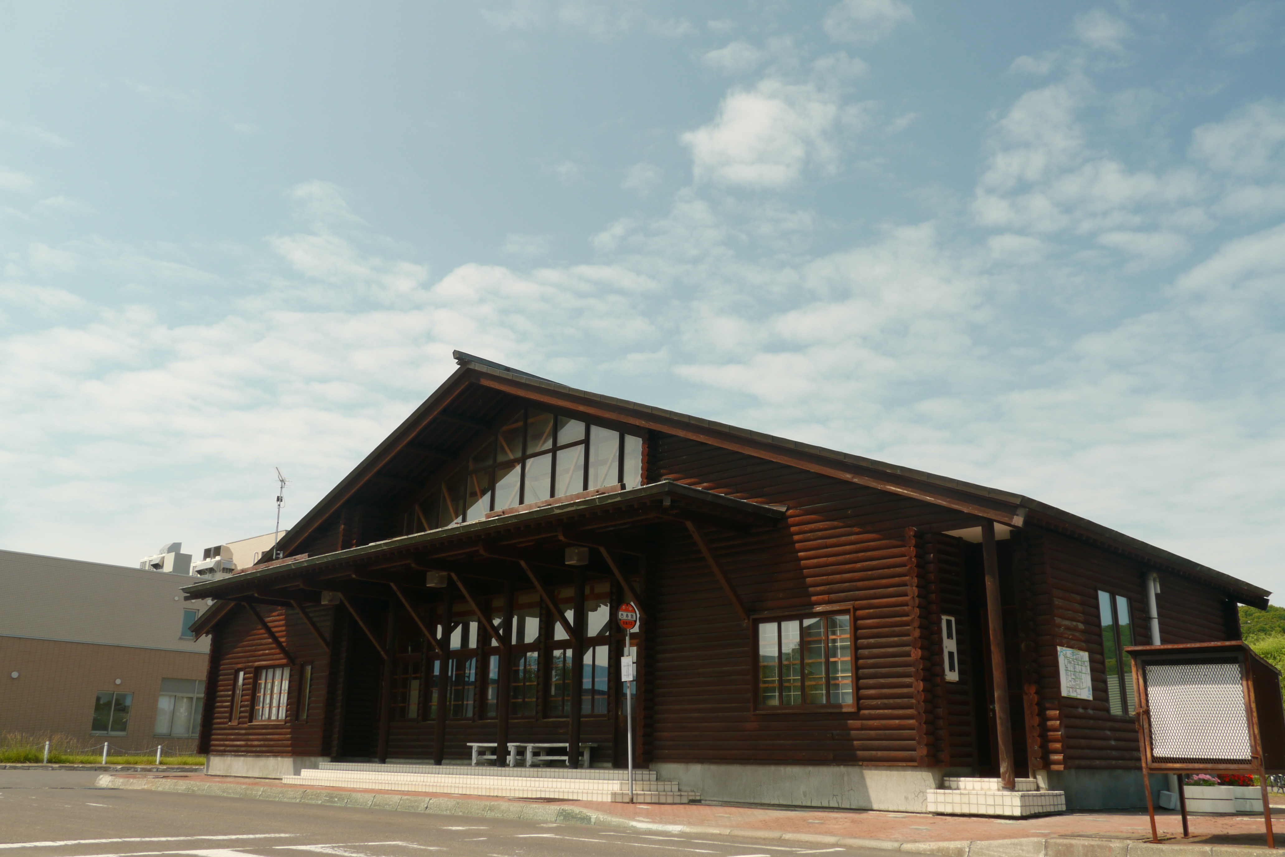 The remains of Kotanbetsu Station of the Haboro Line in Hokkaido, Japan. Photo taken on July 27, 2011.